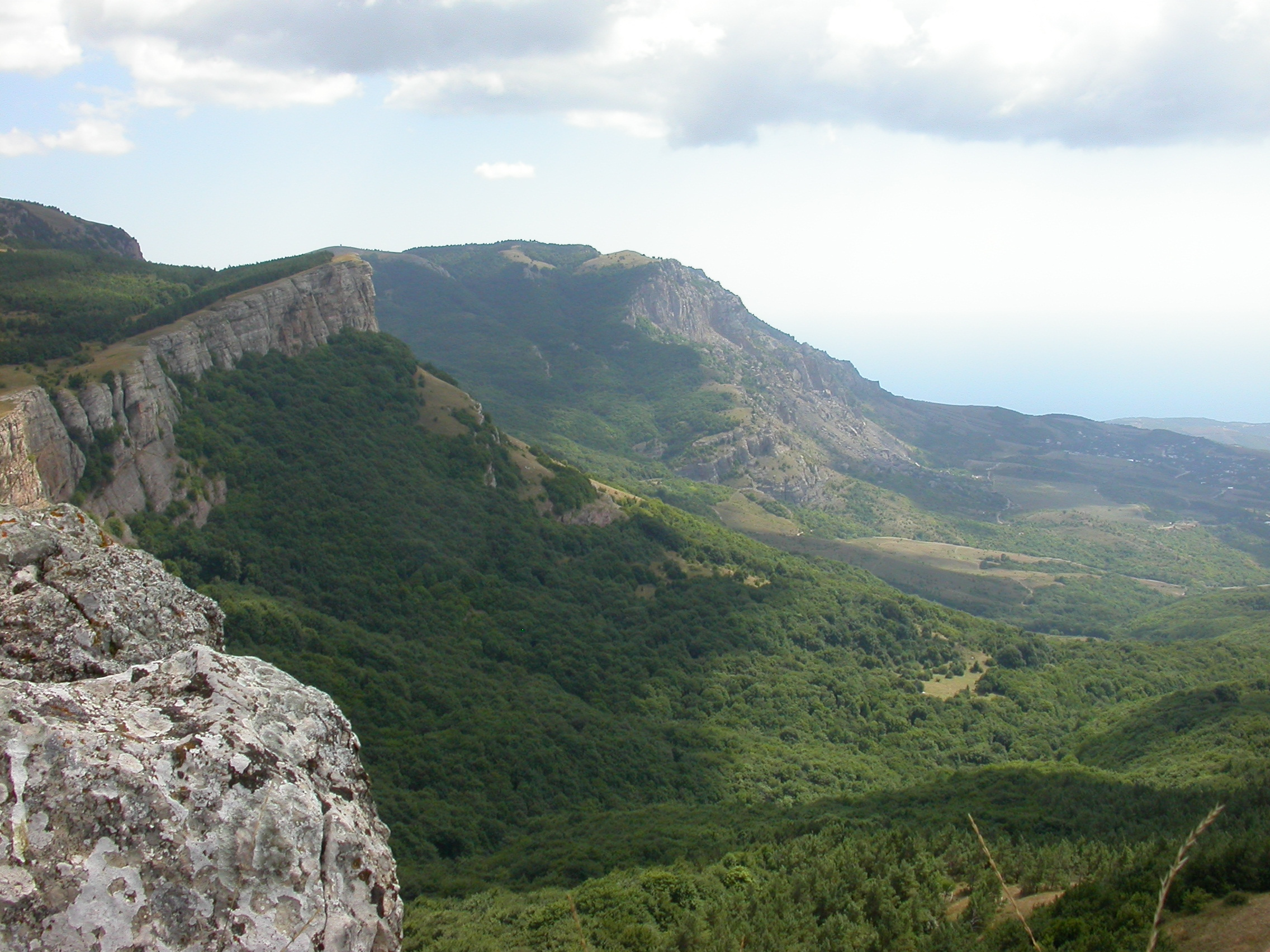 Crimea mountains cliff near Alushta